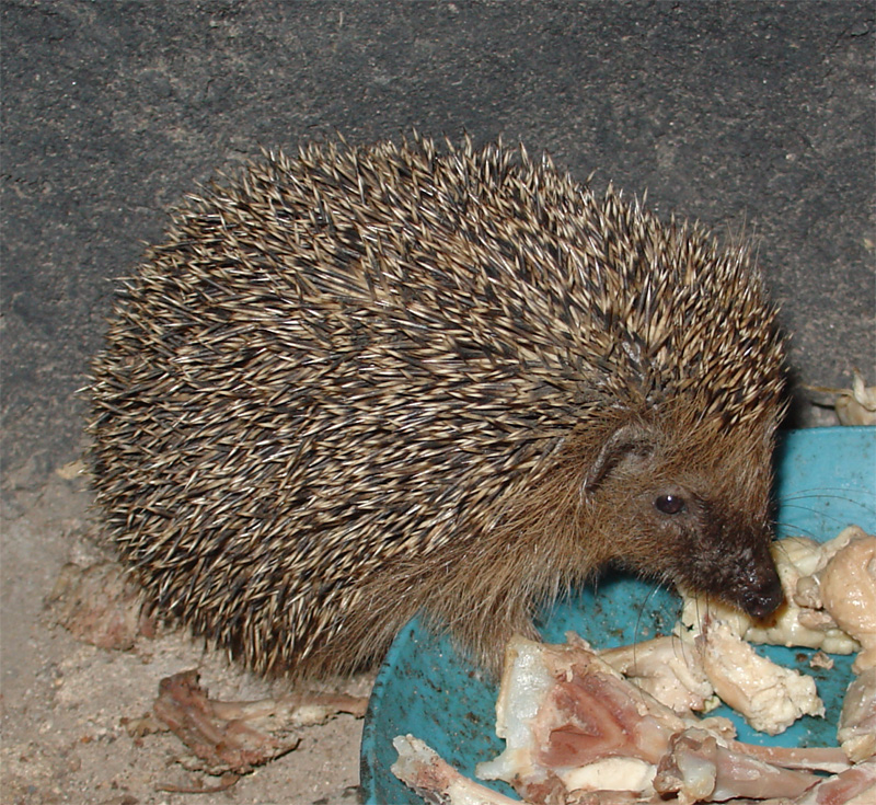 Hedgehog (Erinaceus europaeus), cs: Ježek Photo east Bohemia (Čechy), Europe, March 2007 Author = Karelj